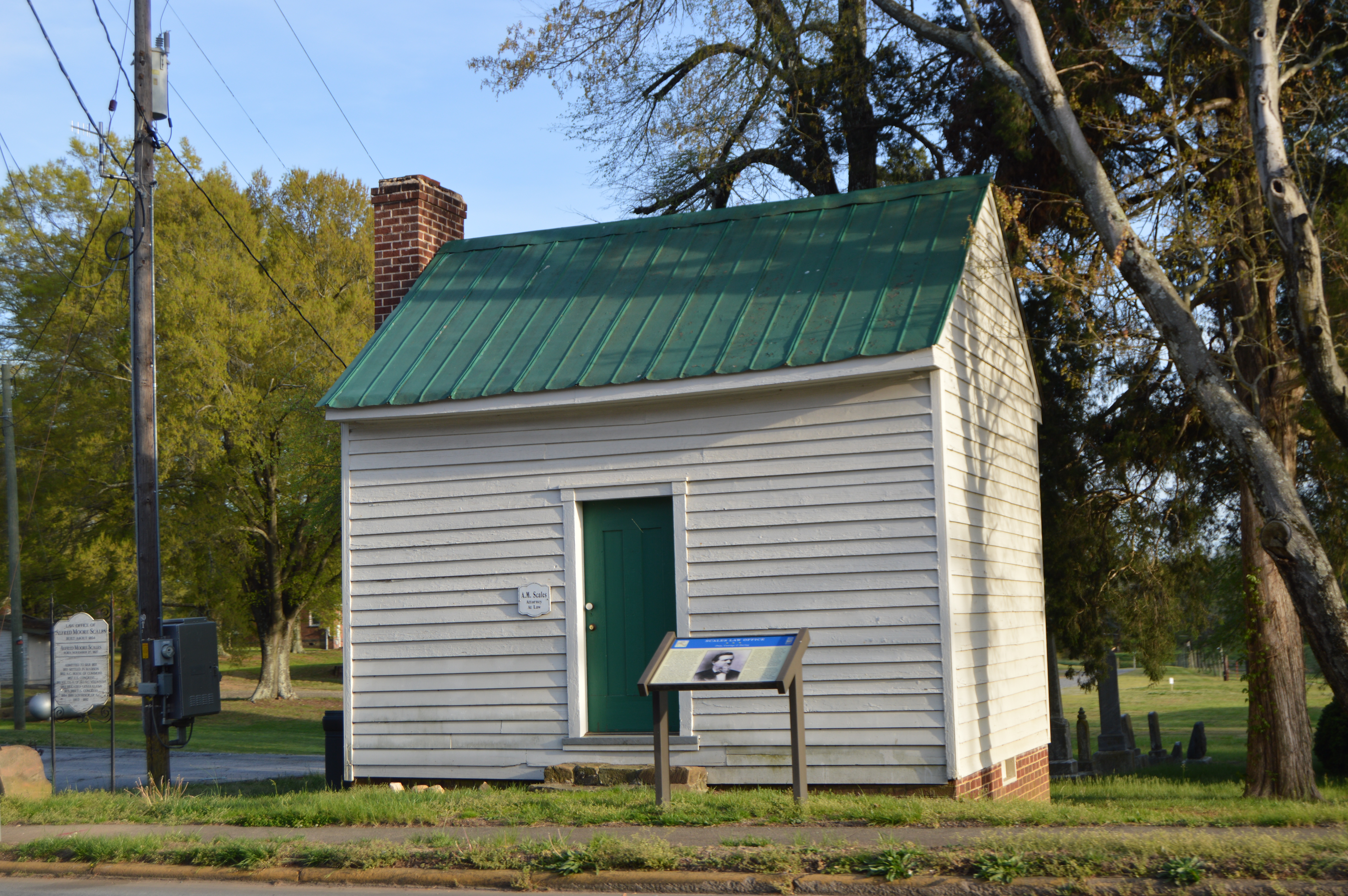 Front of the Alfred Moore Scales Law Office, located at 307 Carter Street in Madison, North Carolina, United States. Built in 1856, it is listed on the National Register of Historic Places.